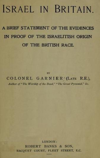 cover of the 1890 book Israel in Britain